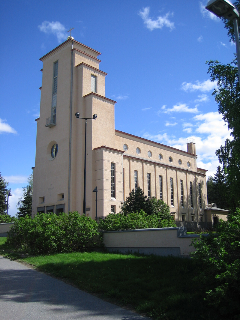 Taulumäki Church in Jyväskylä, Finland. Built in 1928–29. Designed by architect Elsi Borg.